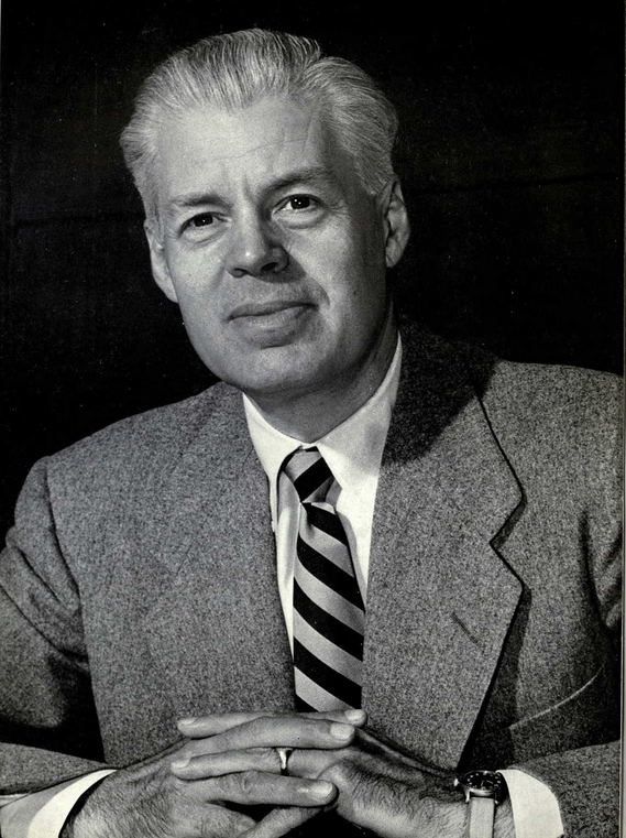 Photograph of Harlan Hatcher This work is in the public domain because it was published in the United States between 1923 and 1963 and although there may or may not have been a copyright notice, the copyright was not renewed. Unless its author has been dead for the required period, it is copyrighted in the countries or areas that do not apply the rule of the shorter term for US works, such as Canada (50 pma), Mainland China (50 pma, not Hong Kong or Macao), Germany (70 pma), Mexico (100 pma), Switzerland (70 pma), and other countries with individual treaties. See Commons:Hirtle chart for further explanation. This work is in the public domain in the United States because it was published in the United States between 1923 and 1977 without a copyright notice. See Commons:Hirtle chart for further explanation. Note that it may still be copyrighted in jurisdictions that do not apply the rule of the shorter term for US works (depending on the date of the author's death), such as Canada (50 p.m.a.), Mainland China (50 p.m.a., not Hong Kong or Macao), Germany (70 p.m.a.), Mexico (100 p.m.a.), Switzerland (70 p.m.a.), and other countries with individual treaties.